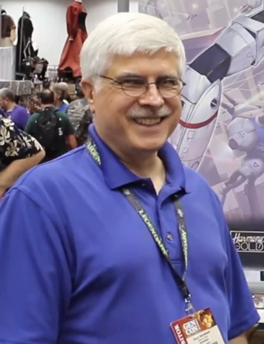 American roleplaying-game designer and publisher Kevin Siembieda, at Gen Con 2014.